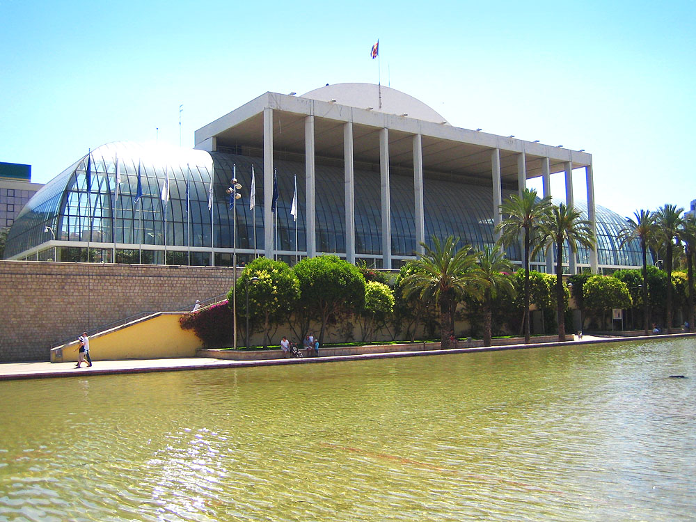 Front view of the Opera House - Palau de la Música - in Valencia, Spain